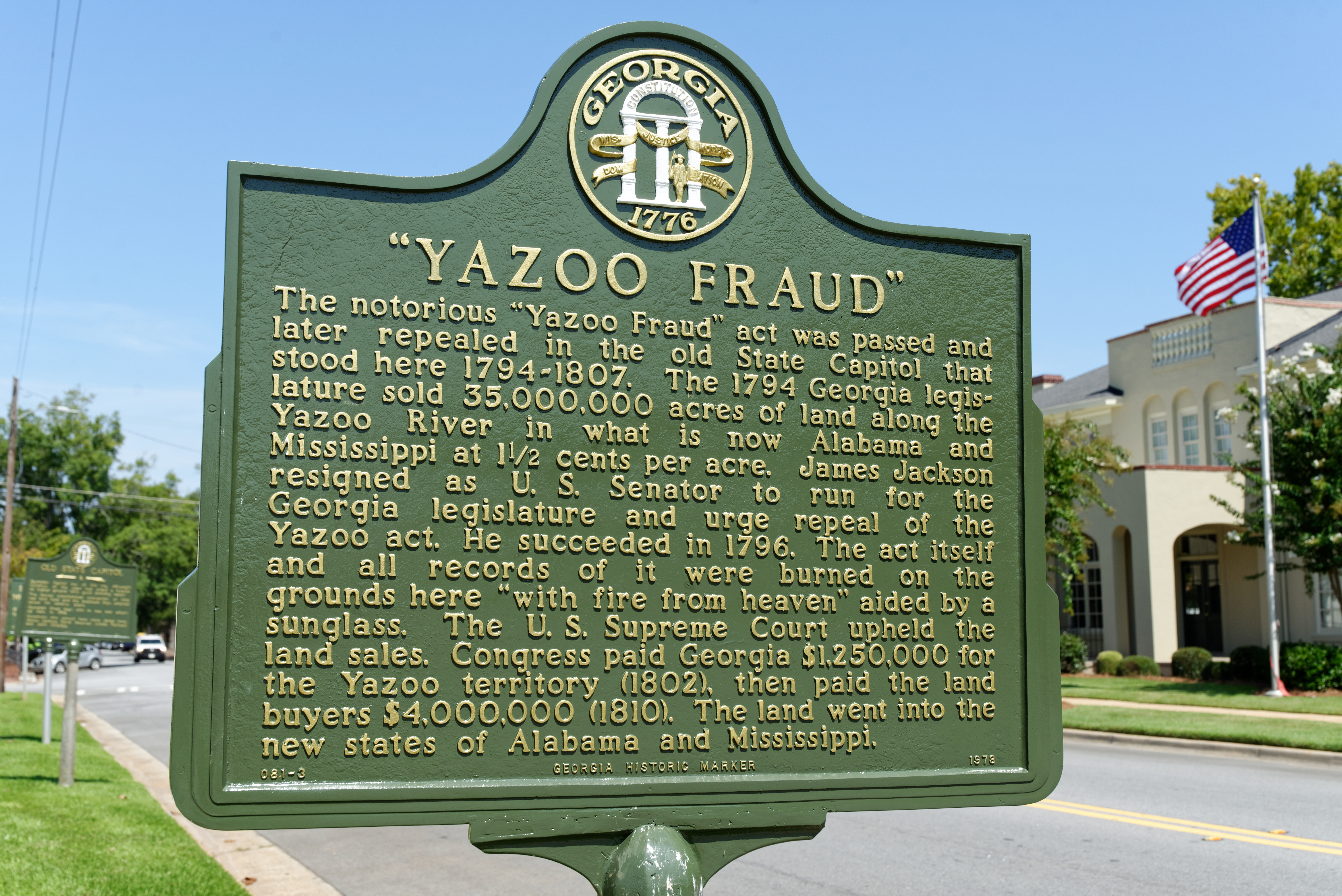 Jefferson County Courthouse, Louisville, Georgia, US